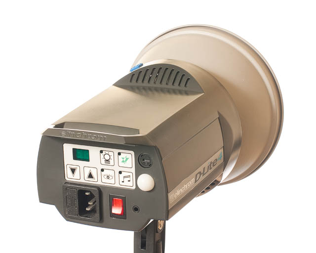 Rear view of an Elinchrom D-Lite 4 flash unit, showing the controls.